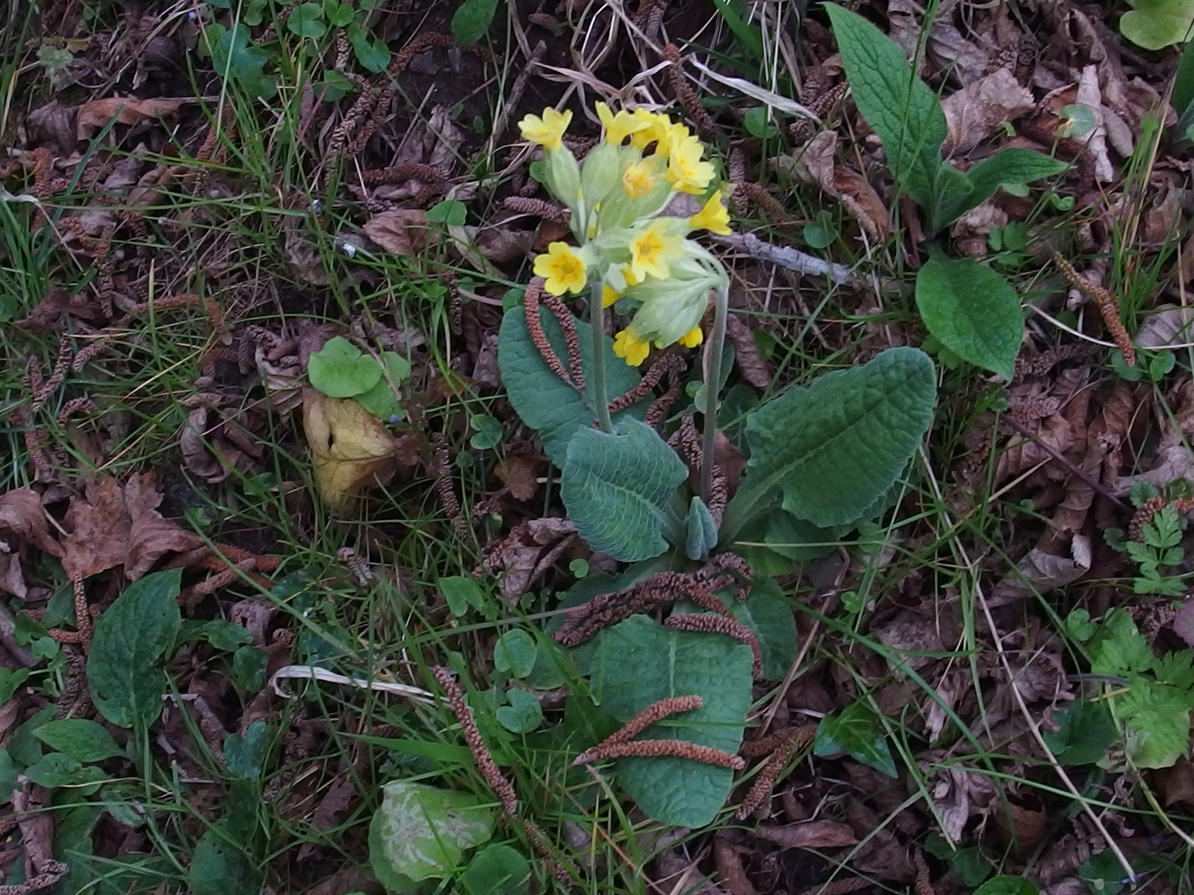 Primula veris in river forest, 500 m alt. Pre-Pyrenees region, Catalonia, Spain.